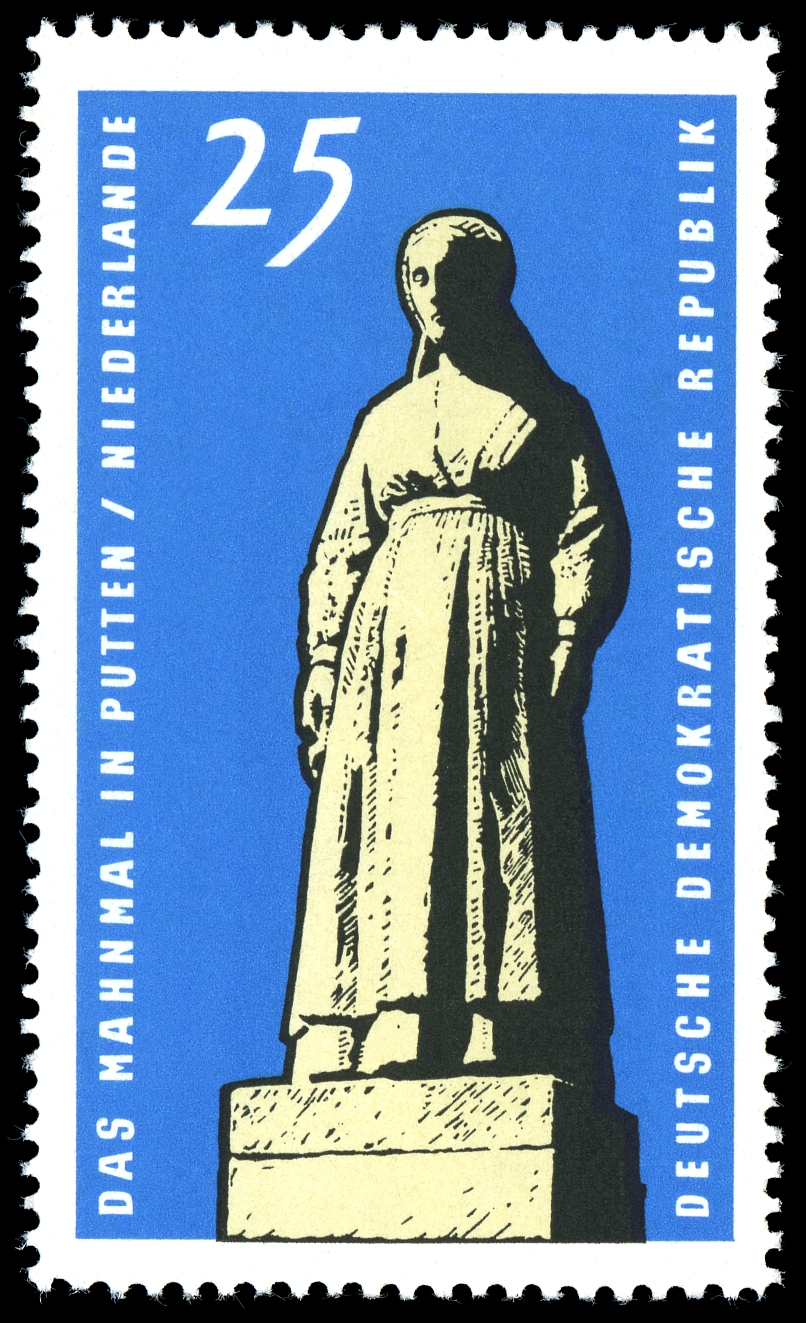 Ausgabepreis: 25 Pfennig First Day of Issue / Erstausgabetag: 19. Oktober 1965 Auflage: 3.000.000 Entwurf: Weiß Druckverfahren: Offsetdruck Michel-Katalog-Nr: Ländercode-MiNr: 1141 Licensing This file is most likely NOT in the public domain. It has been marked for review, and will be deleted in due course if the review does not find it to be in the public domain. This file was previously considered to be in the public domain as a German stamp; it is possible that it is in the public domain for other reasons, in which case a new rationale will be applied as part of the review process. See below for the previous rationale. Previous public domain rationale, no longer applicable This stamp is in the public domain in Germany because it was released by the postal administration of the German Democratic Republic or the Soviet occupation zone (Deutschen Post der DDR) whose legal successor is the Federal Republic of Germany. Thus it is an official work according to German copyright law (§ 5 Abs. 1 UrhG).